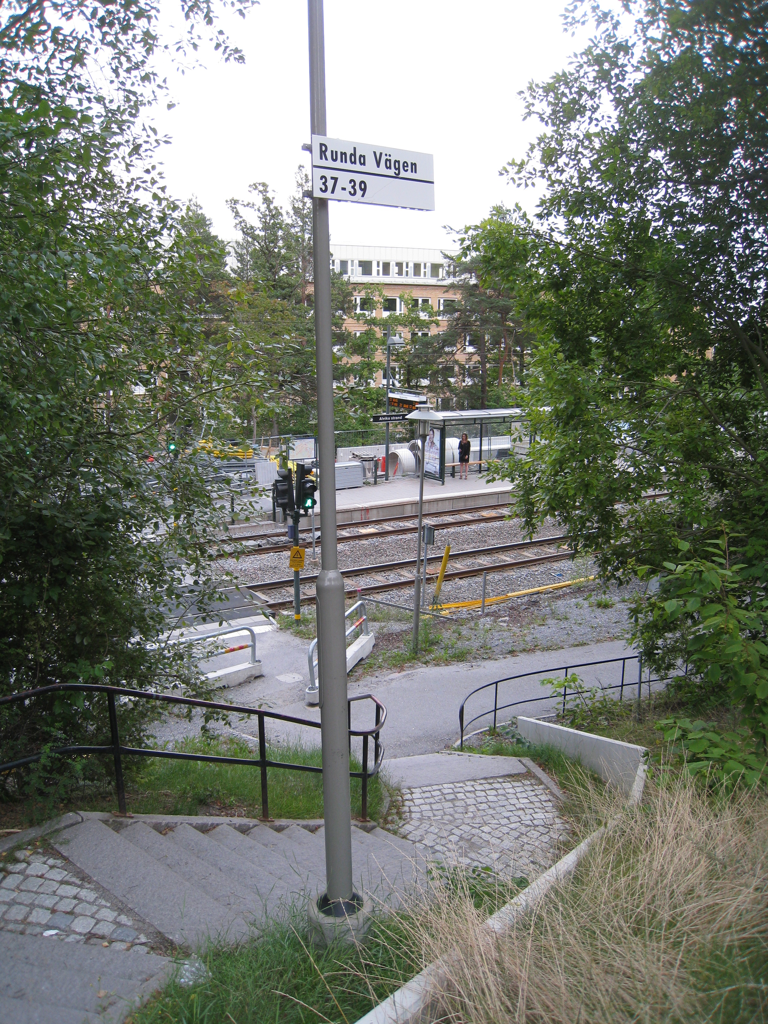 Alviks Strand tram stop at Tvärbanan in Alvik in Bromma (2013). View from the steps at Runda Vägen.